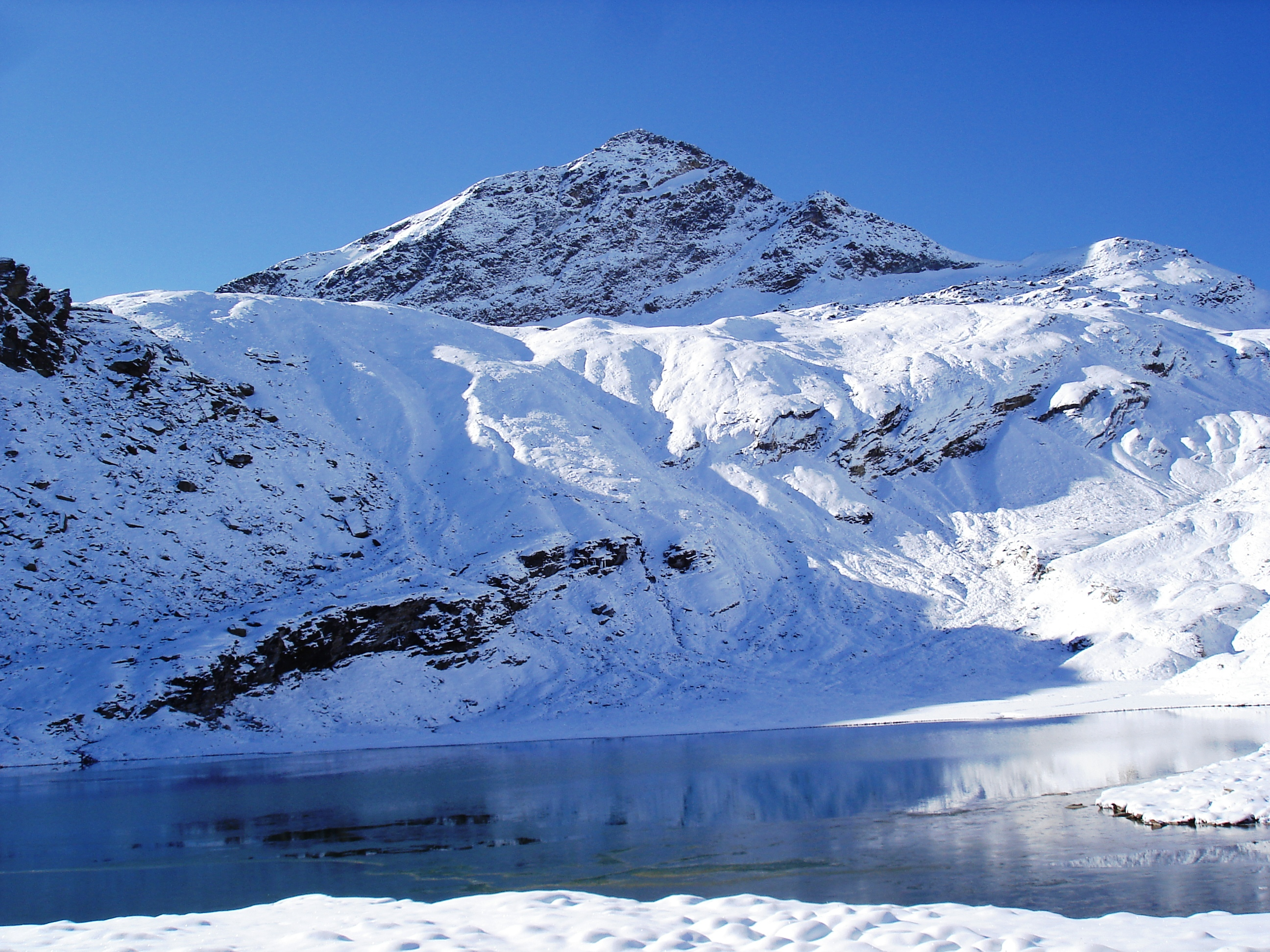 Guraletssee with Fanellhorn, Vals, Grisons, Switzerland